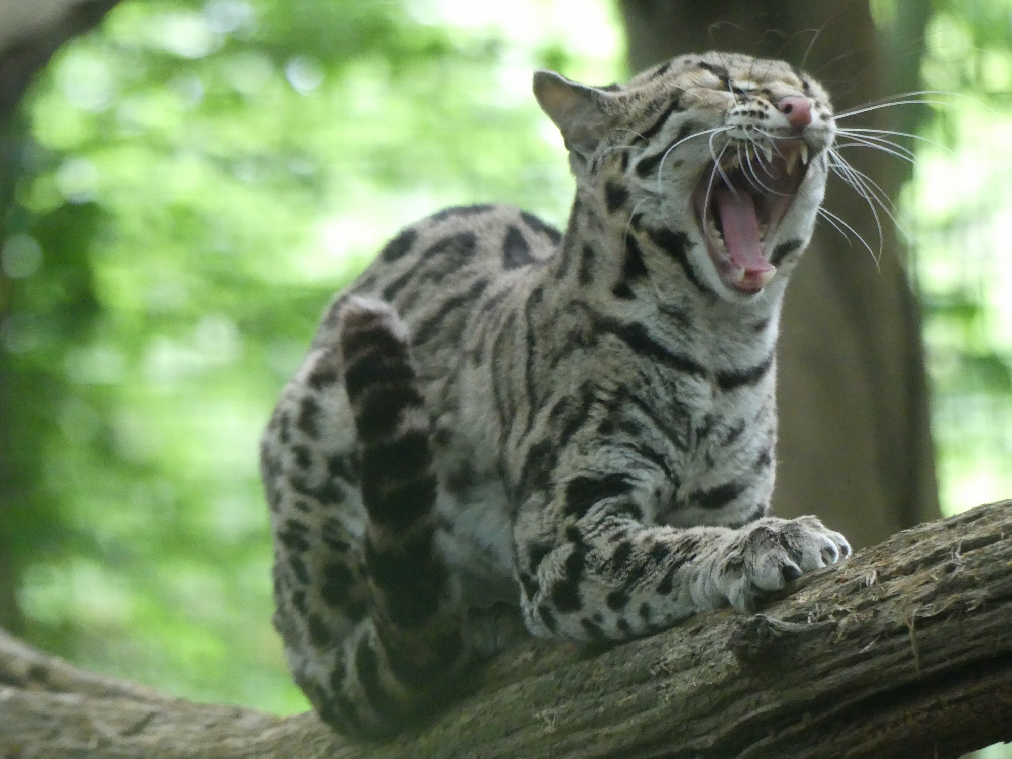 Margay, Réserve Zoologique de Calviac